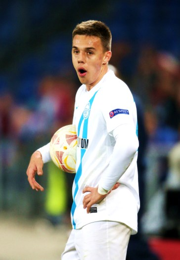 Milan Rodić